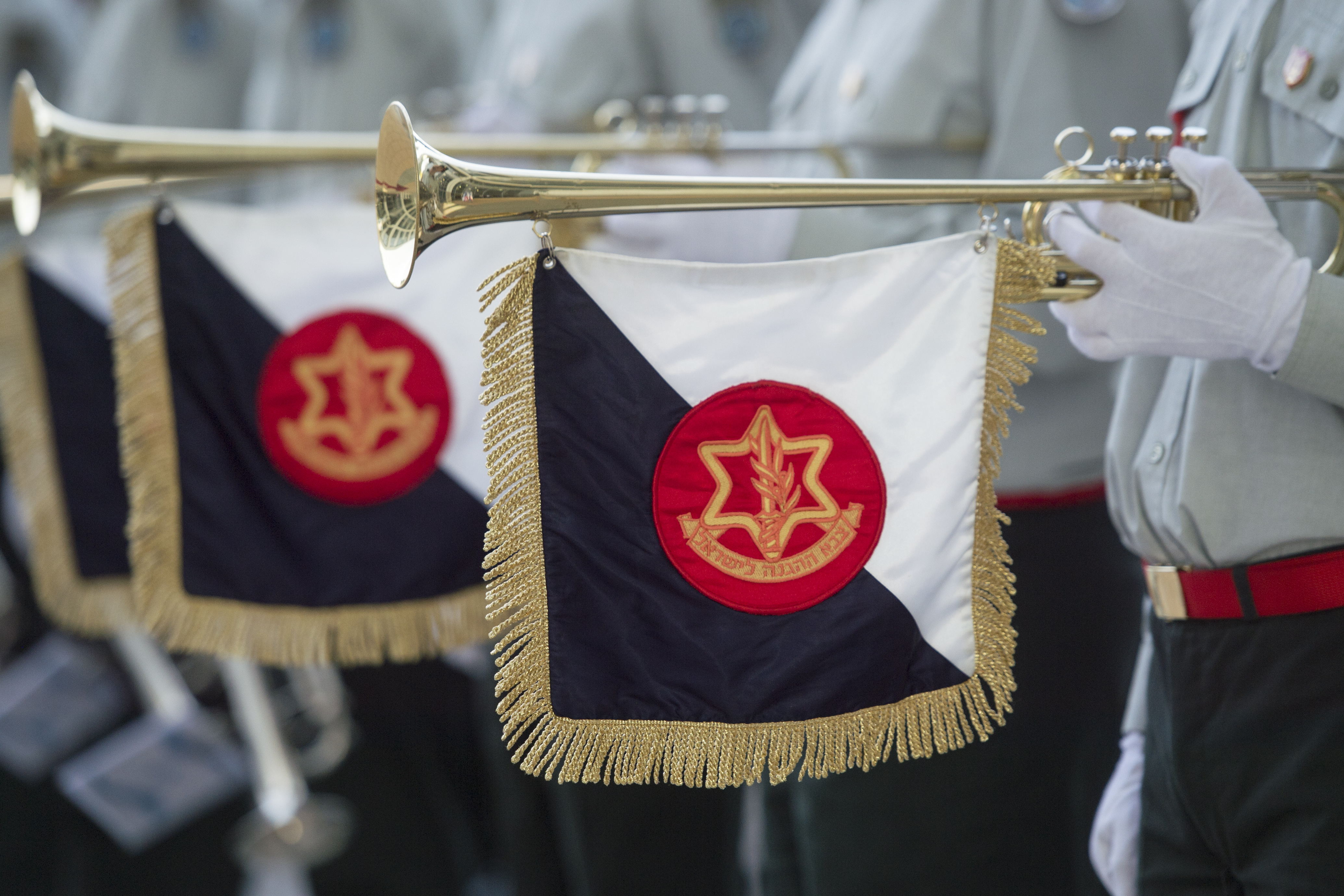 Marine Corps Gen. Joseph F. Dunford Jr., chairman of the Joint Chiefs of Staff, meets with Lt. Gen. Gadi Eisenkot, Chief of General Staff, at Israel Defense Force Headquarters in Tel Aviv, Israel May 9, 2017. (Dept. of Defense photo by Navy Petty Officer 2nd Class Dominique A. Pineiro/Released)